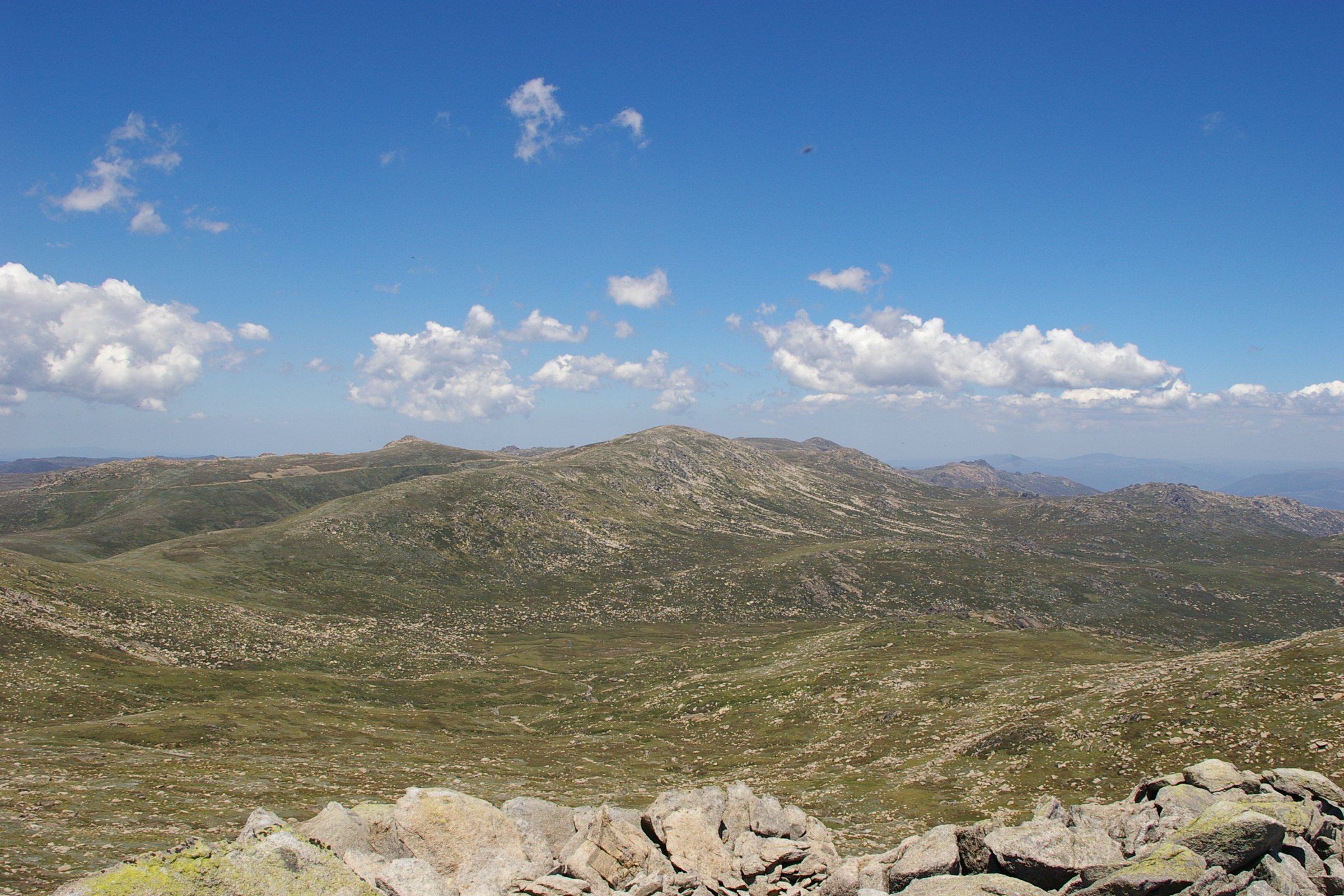 The view from Mount Townsend towards Mount Kosciuszko.